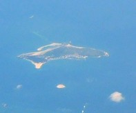 Jibei Island is an island of the Penghu archipelago that is located approximately 5.5 kilometers north of Baisha Island. The island is famous for a 700m long sand spit known as "Jibei Spit".